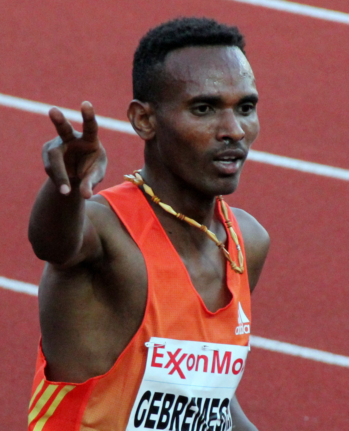 Dejen Gebremeskel at the 2012 Bislett Games